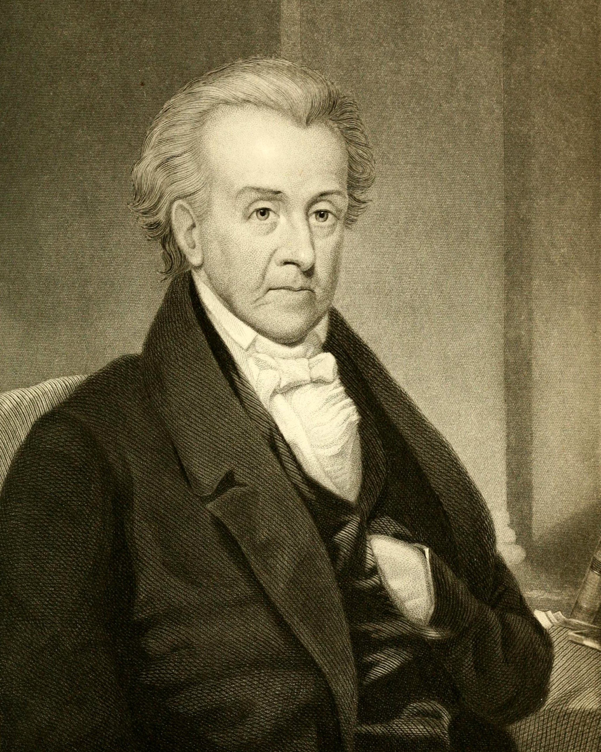 John Davenport (Puritan)